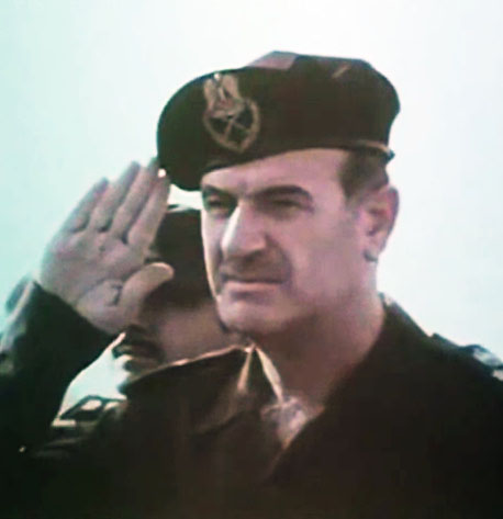 Hafez al-Assad. Photo taken during the 1970s